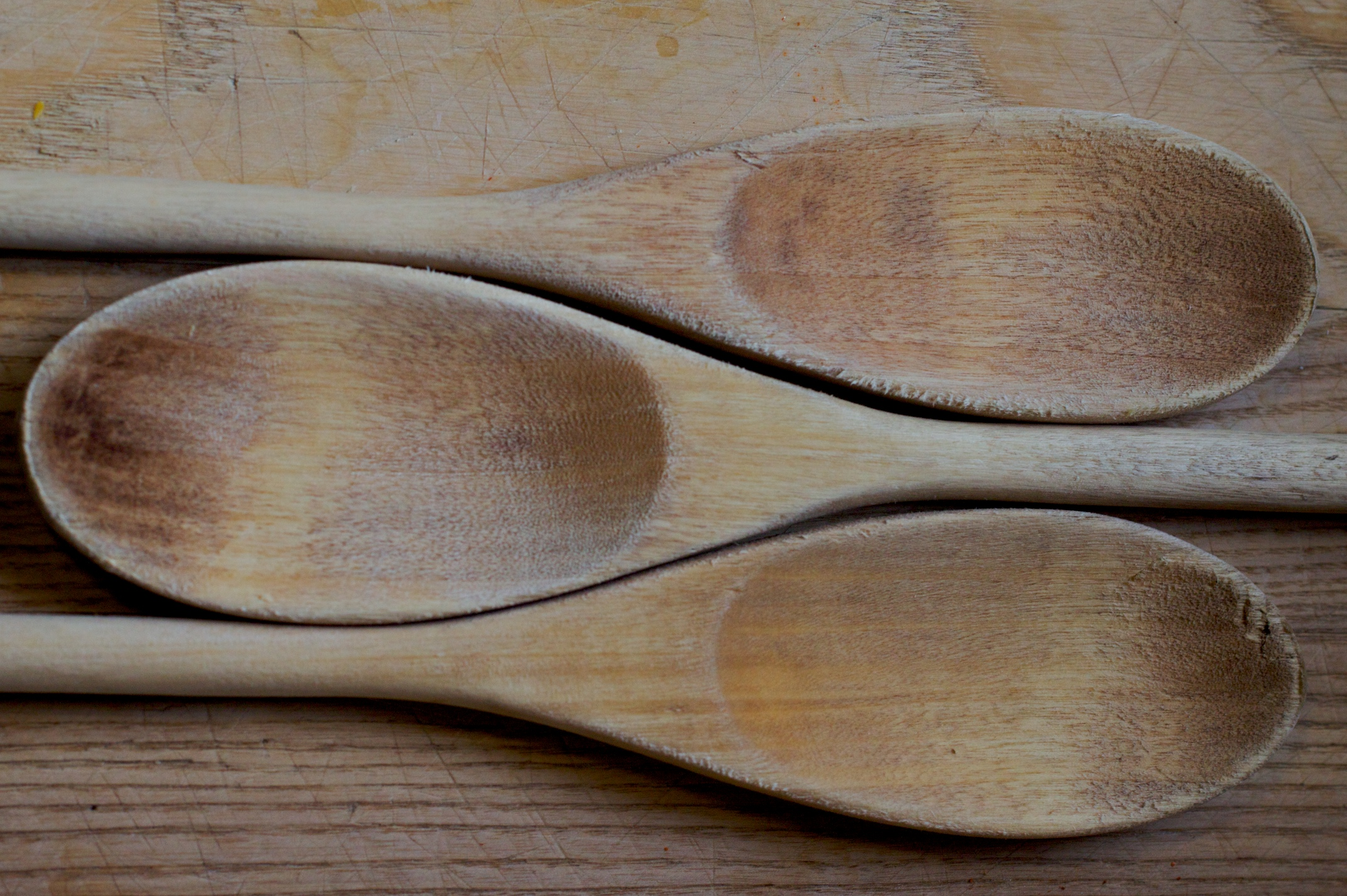 @dailyshoot: 2010/03/09: Most of us enjoy some symmetry in our lives. Look around for it today and make a symmetrical photo. (via @melhutch) #ds114 I was flailing around the house this morning trying to find some symmetry (my house is too messy for that kind of organization), and just on a whim I placed two wooden spoons on my cutting board, and then thought to slide number 3 in. I really like it now! I did not plan on having so many spoons, but when my friend did some tile work in my kitchen, behind the stove was a whole collection of them.